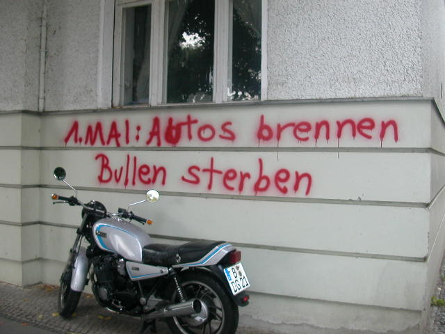 May Day graffiti in Berlin. The text reads, "May 1st: cars burn, bulls die". Bullen (literally, "bulls") is derogatory German slang for the police approximately equivalent to "pigs" in English. Copyright (C) 2003 by me. licensed under GFDL.